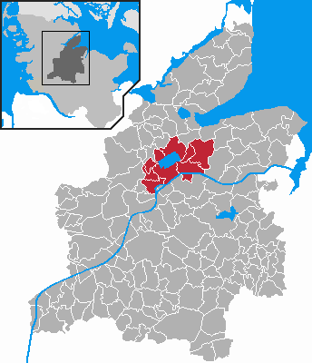 This map shows the area of the Amt (county) Wittensee in the Kreis (district) Rendsburg-Eckernförde, Schleswig-Holstein, Germany.